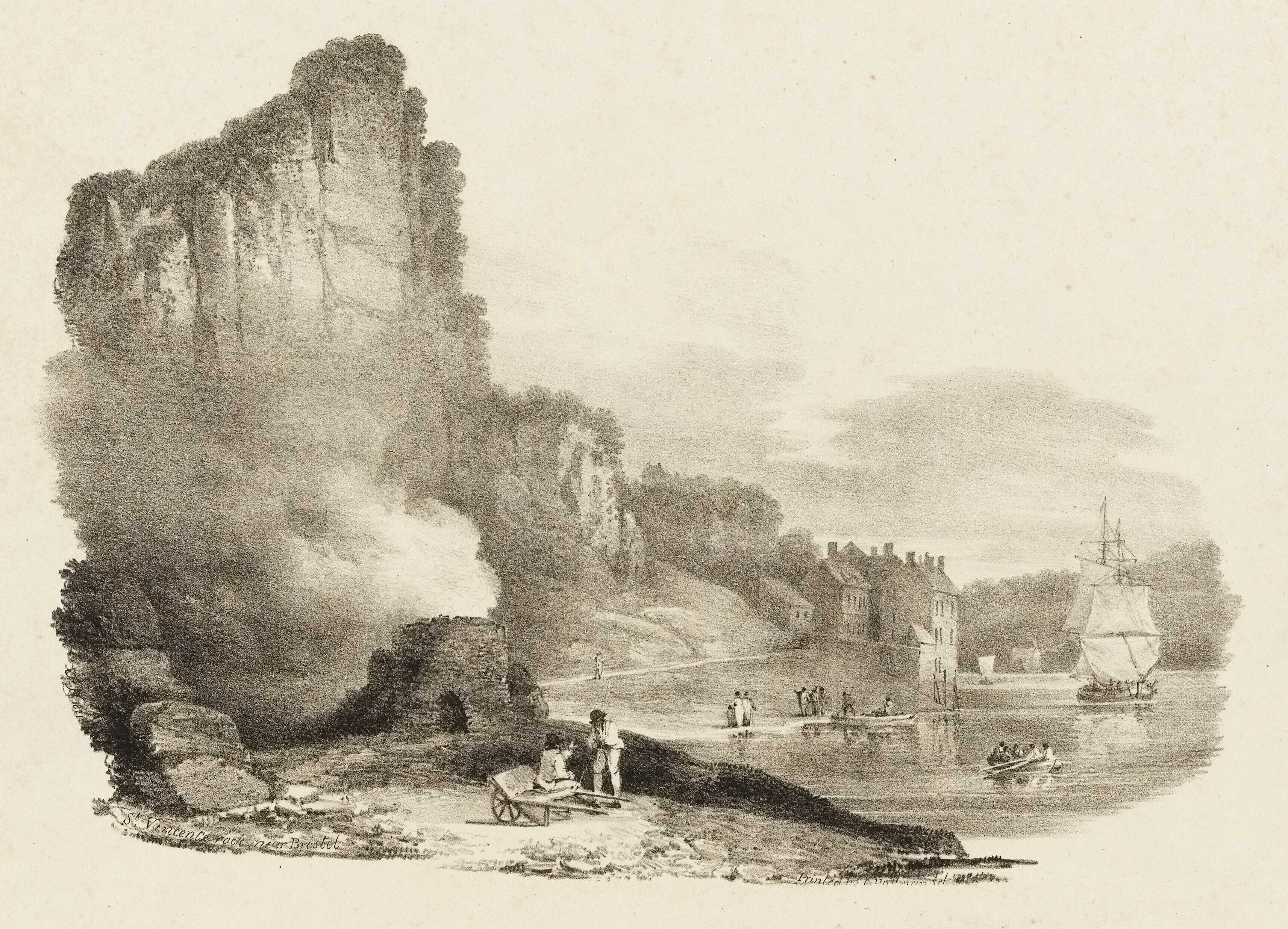 'St Vincent rock near Bristol' Vignette. St Vincent rock is a geologically significant area and important for its place in the mythological story of how the Avon Gorge was formed. At the foot of the rock, and this is visible in the picture are some hot springs leading to Clifton (the surrounding area) and Hotwells in particular becoming a popular spa resort around the 18th century. Hullmandel was an important lithographer in the 19th century with a wide circle of friends in both arts and sciences. A number of examples of his work exist within the Herschel collection. 'St Vincent rock near Bristol'